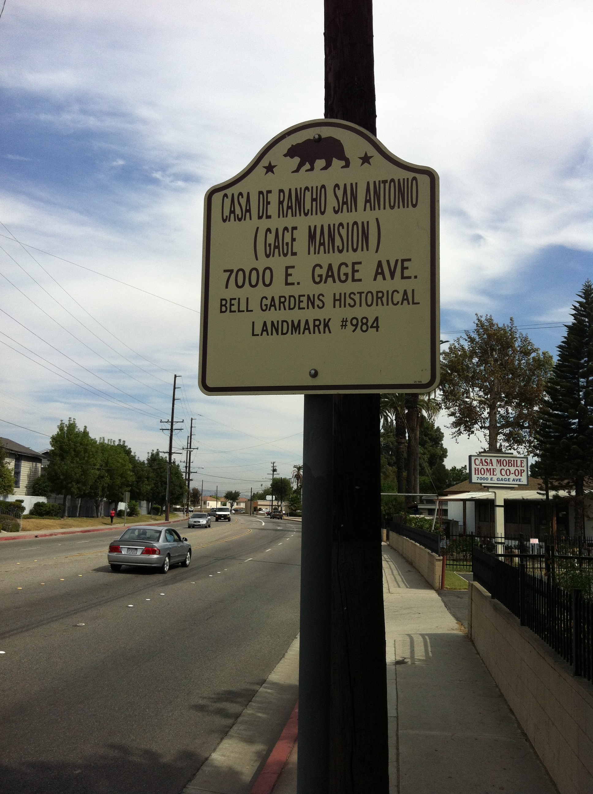 Sign for historic Henry Gage Mansion, completed in 1810. Located at 7000 East Gage Avenue in Bell Gardens, Southern California.